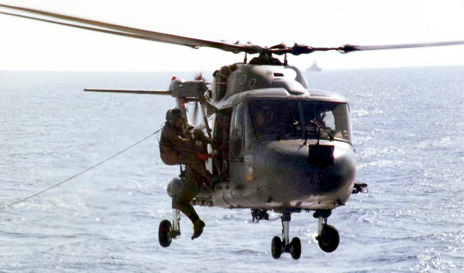 Lynx 335 HMS Cardiff, pilot Lt. Clayton R.N. practising search and rescue.